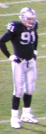 San Diego Chargers players huddle in a game against the Oakland Raiders.